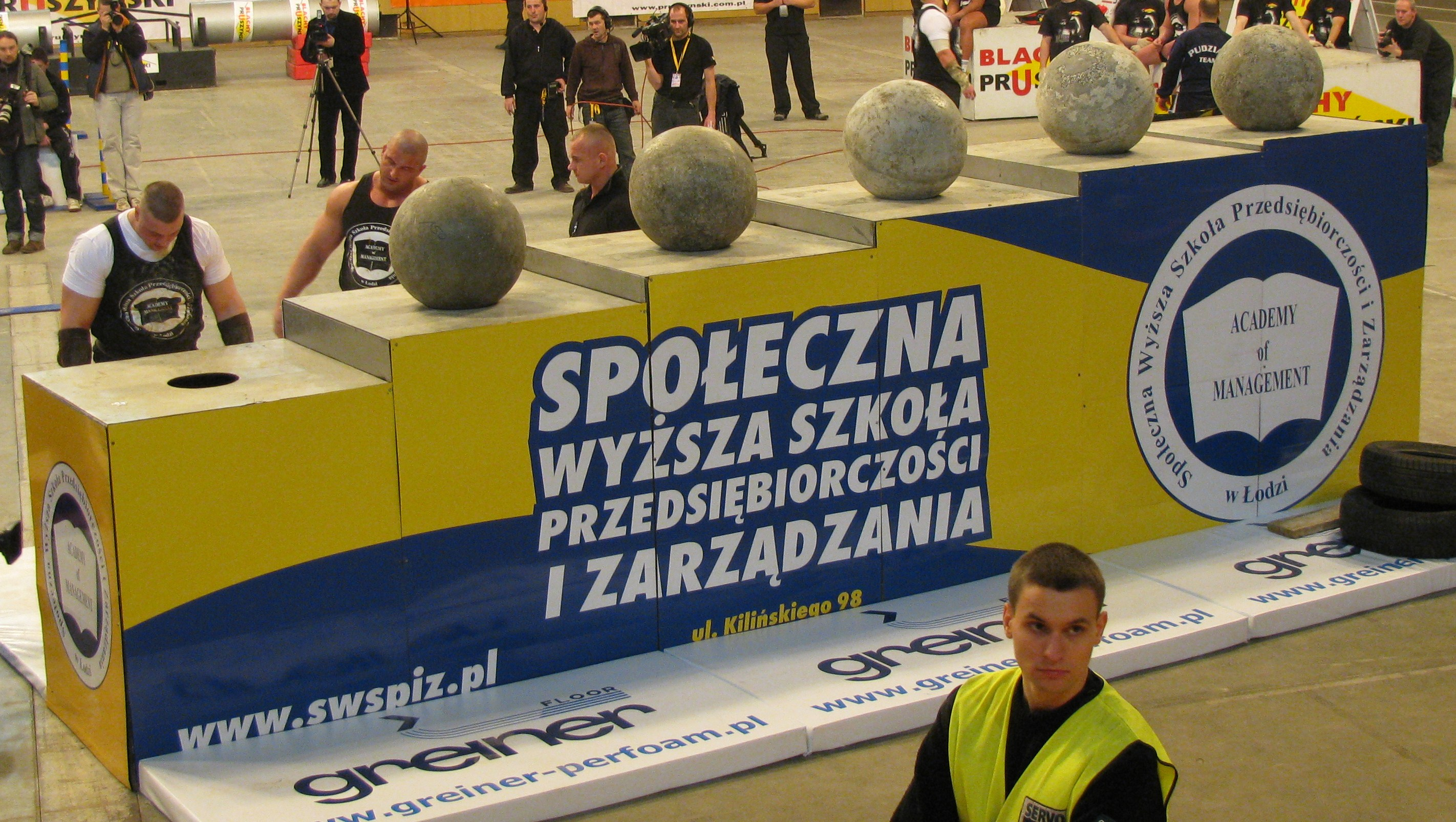 Strongmen exercise: the Atlas Stones.